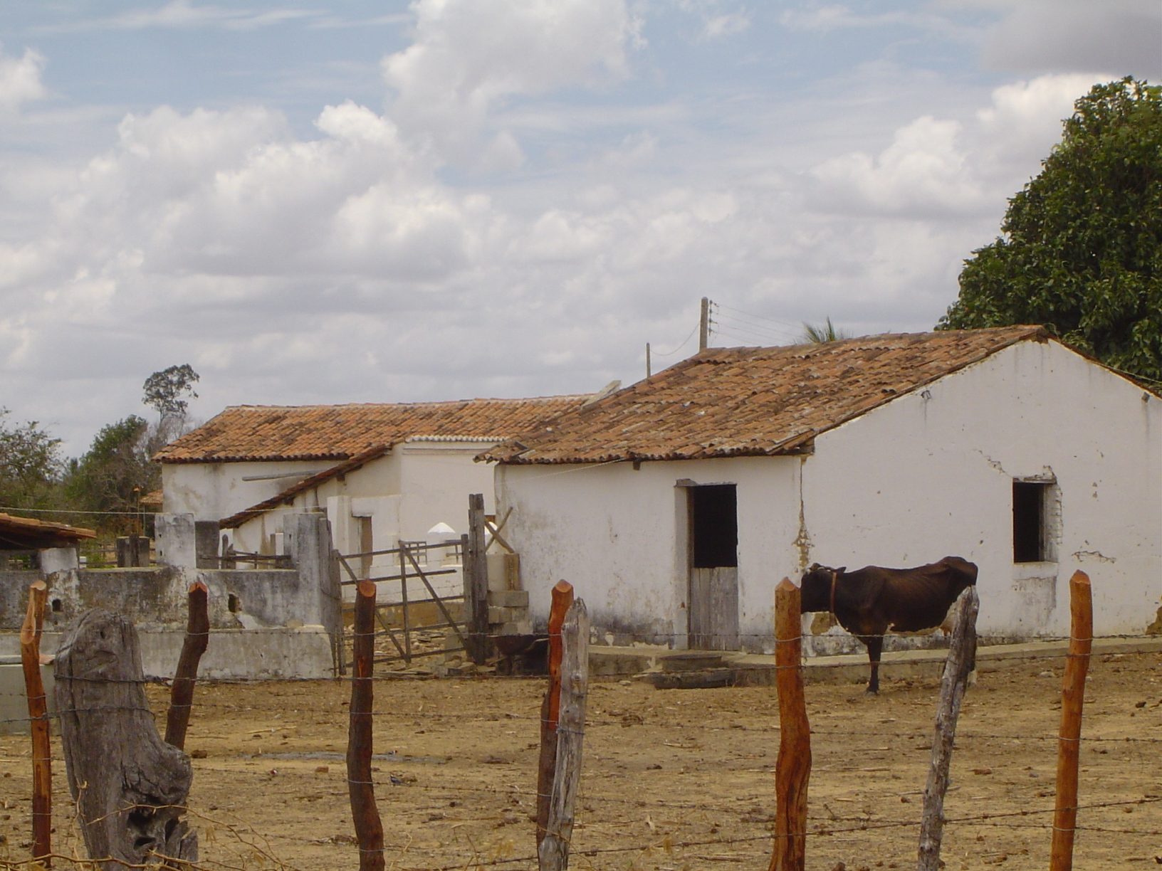 traditional house with stable in the sertaoe of Rio Grande Do Norte, Brazil